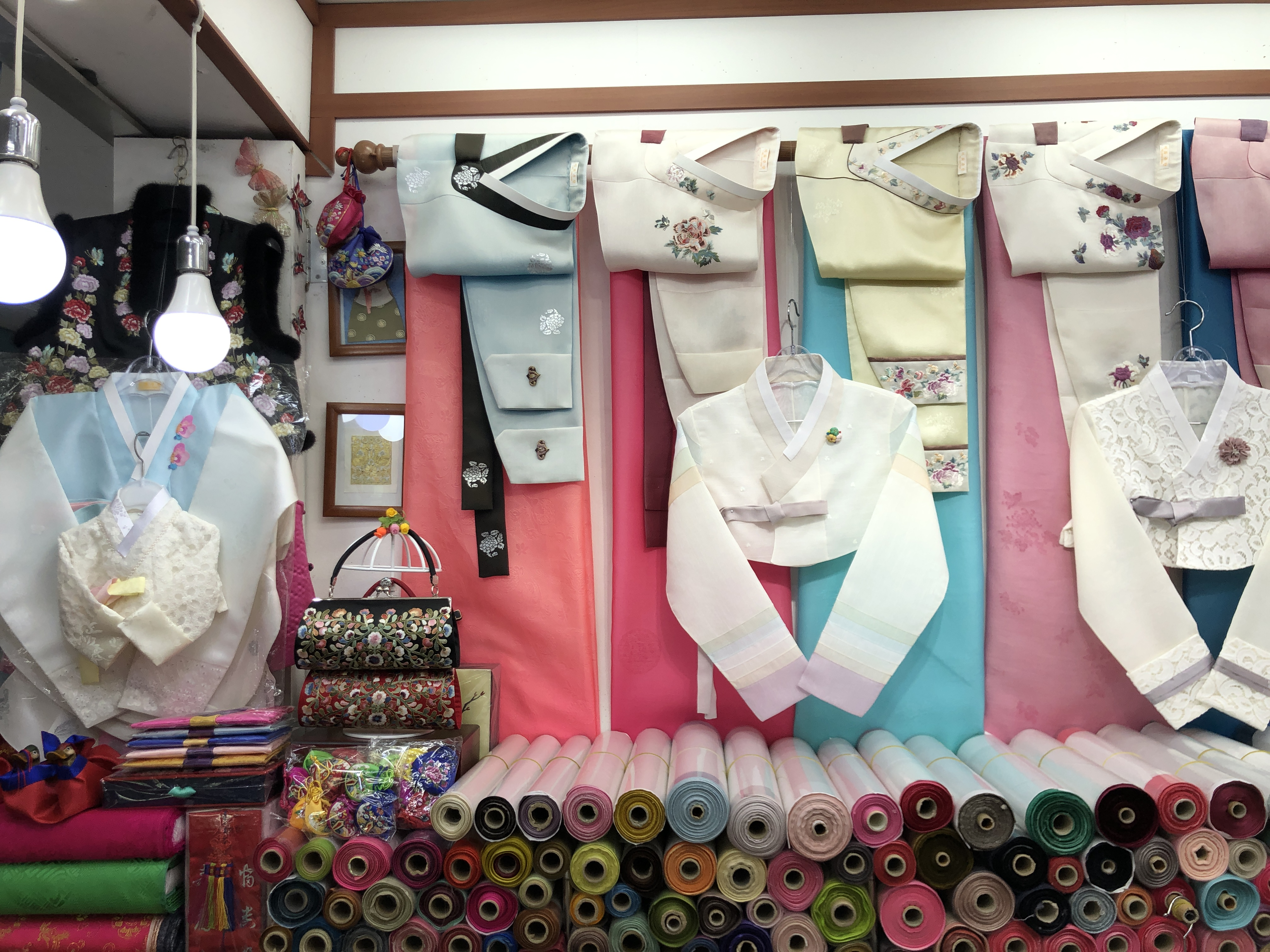 Hanbok stores in Dongdaemun Shopping Complex